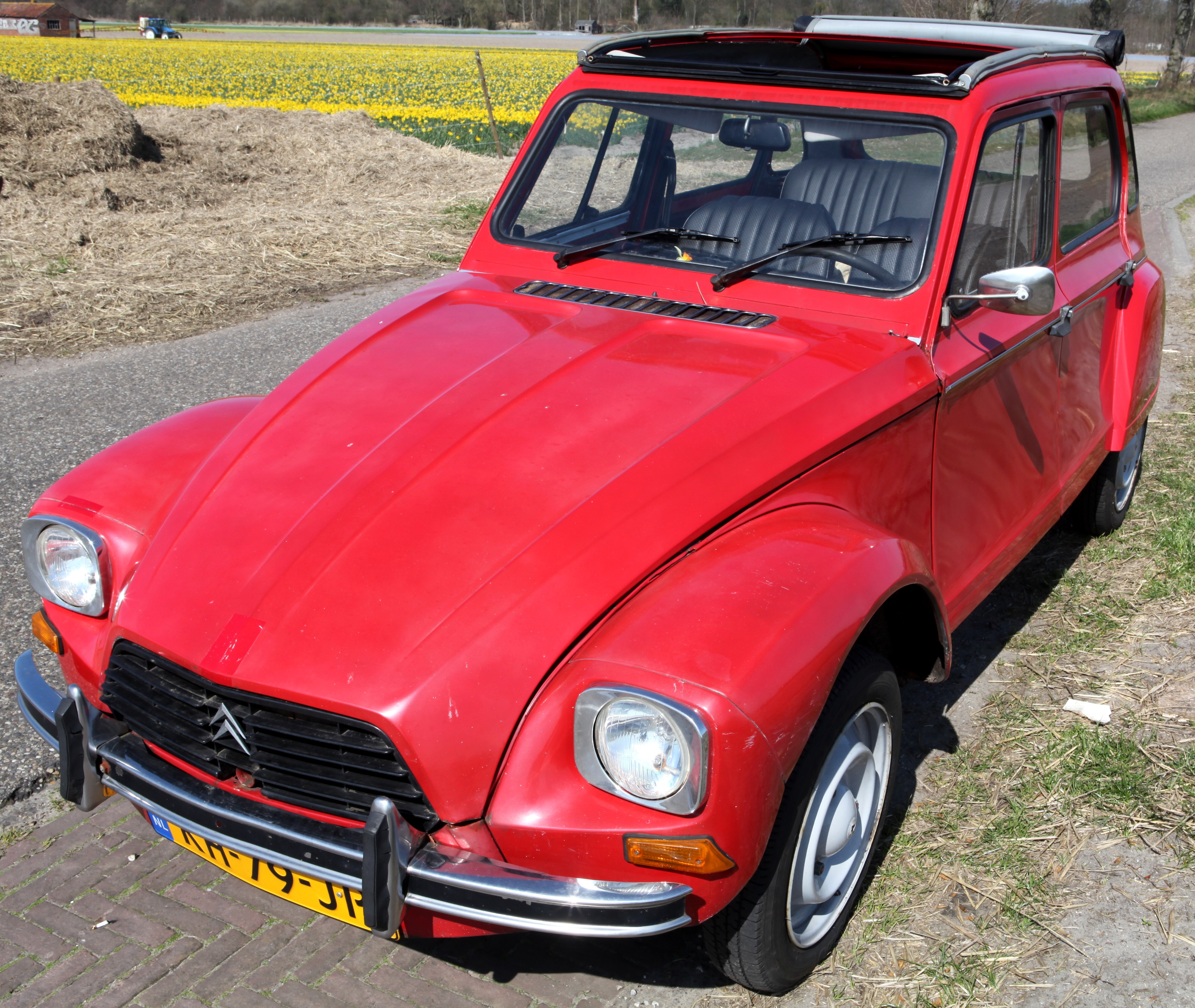 Citroen Dyane 6 from 1983